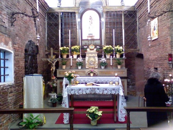 interior of the Sanctuary of the Santa Casa in Cavona